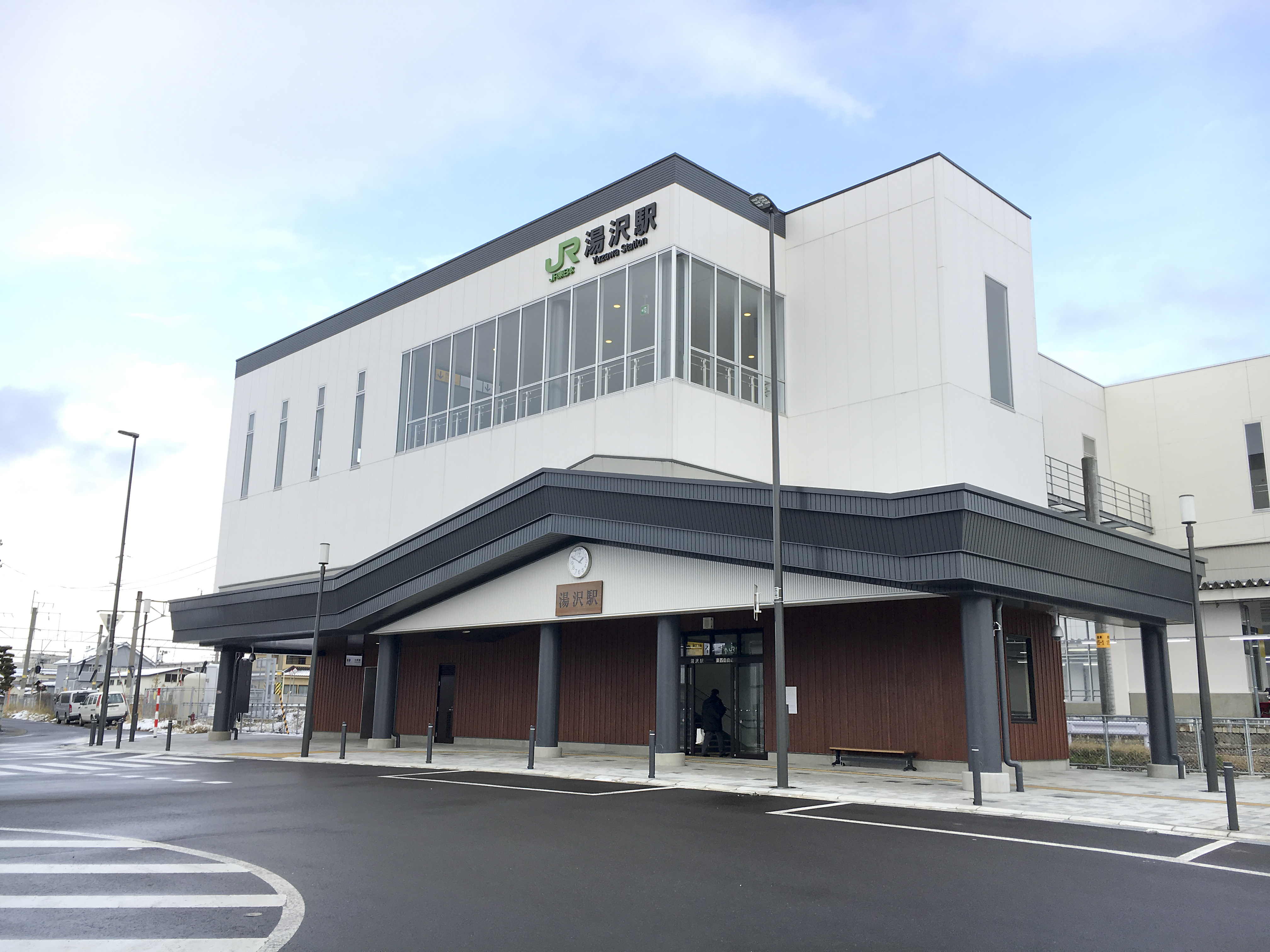 Yuzawa station has a simple roundabout in front of the west entrance.